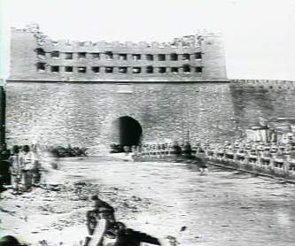 Beijing gate which demolish by Eight-Nation Alliance canon in 1900